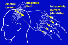 generation of the magnetic field of the brain; image origin, VSM MedTech Ltd., makers of CTF MEG system